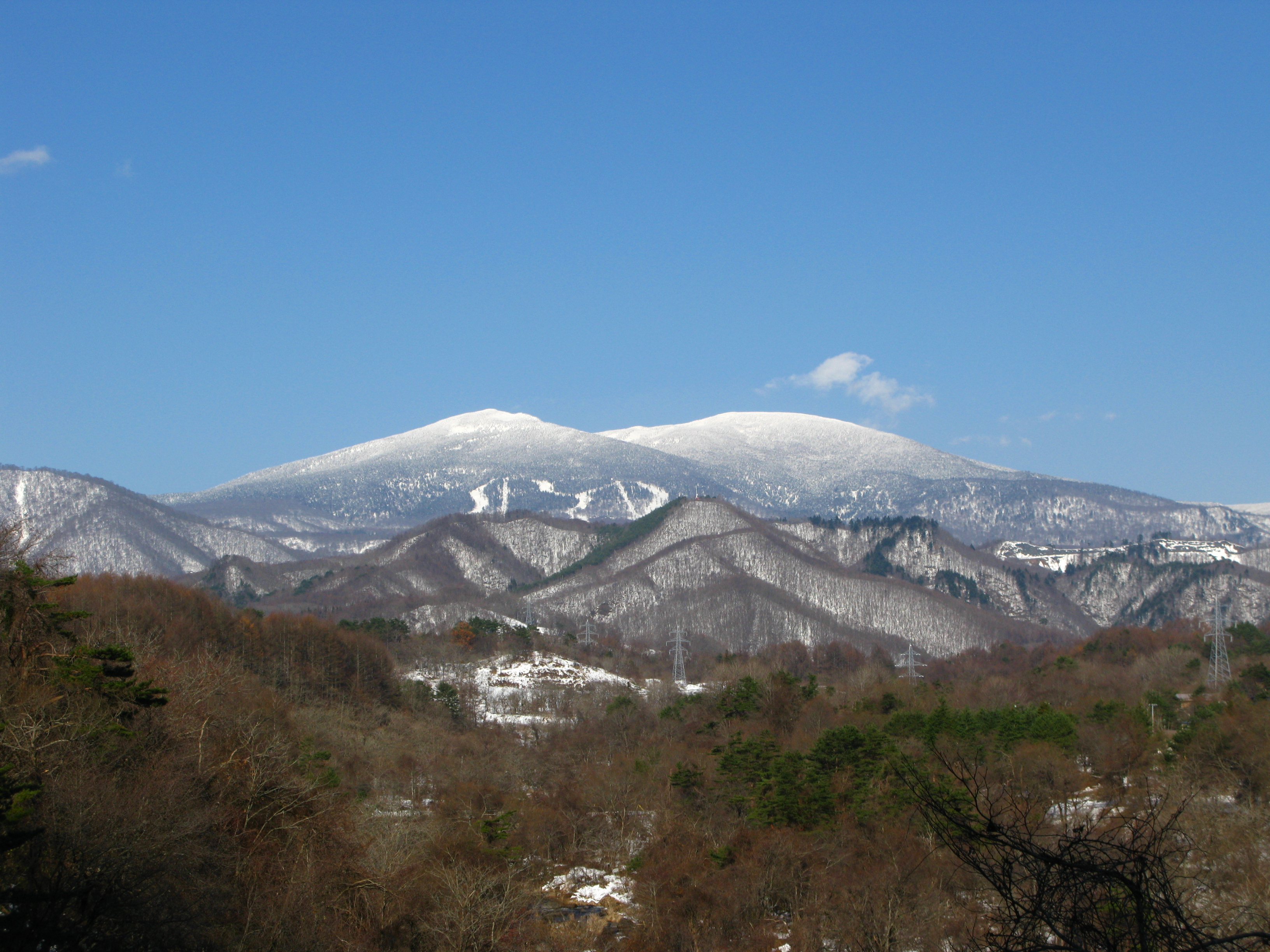 Mt.Nishiazuma-yama,Japan